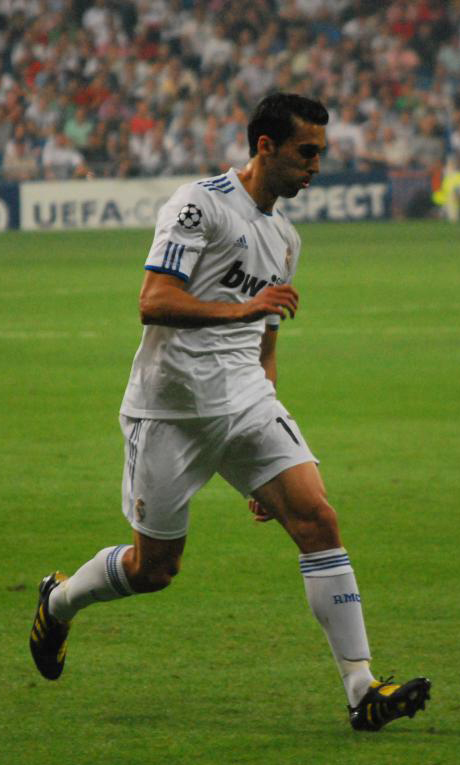 Arbeloa in Real Madrid 2 - Ajax 0